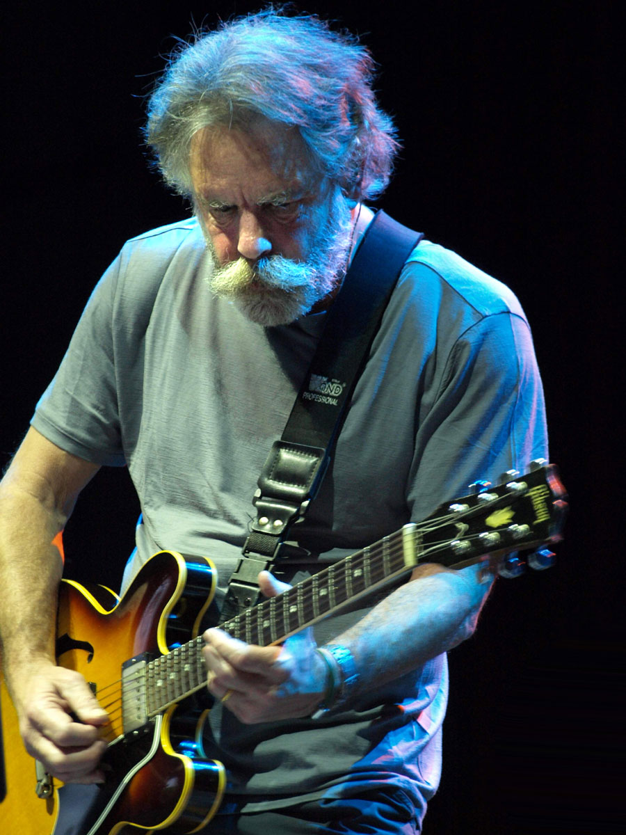 Bob Weir playing with Ratdog, PNC Bank Arts Center